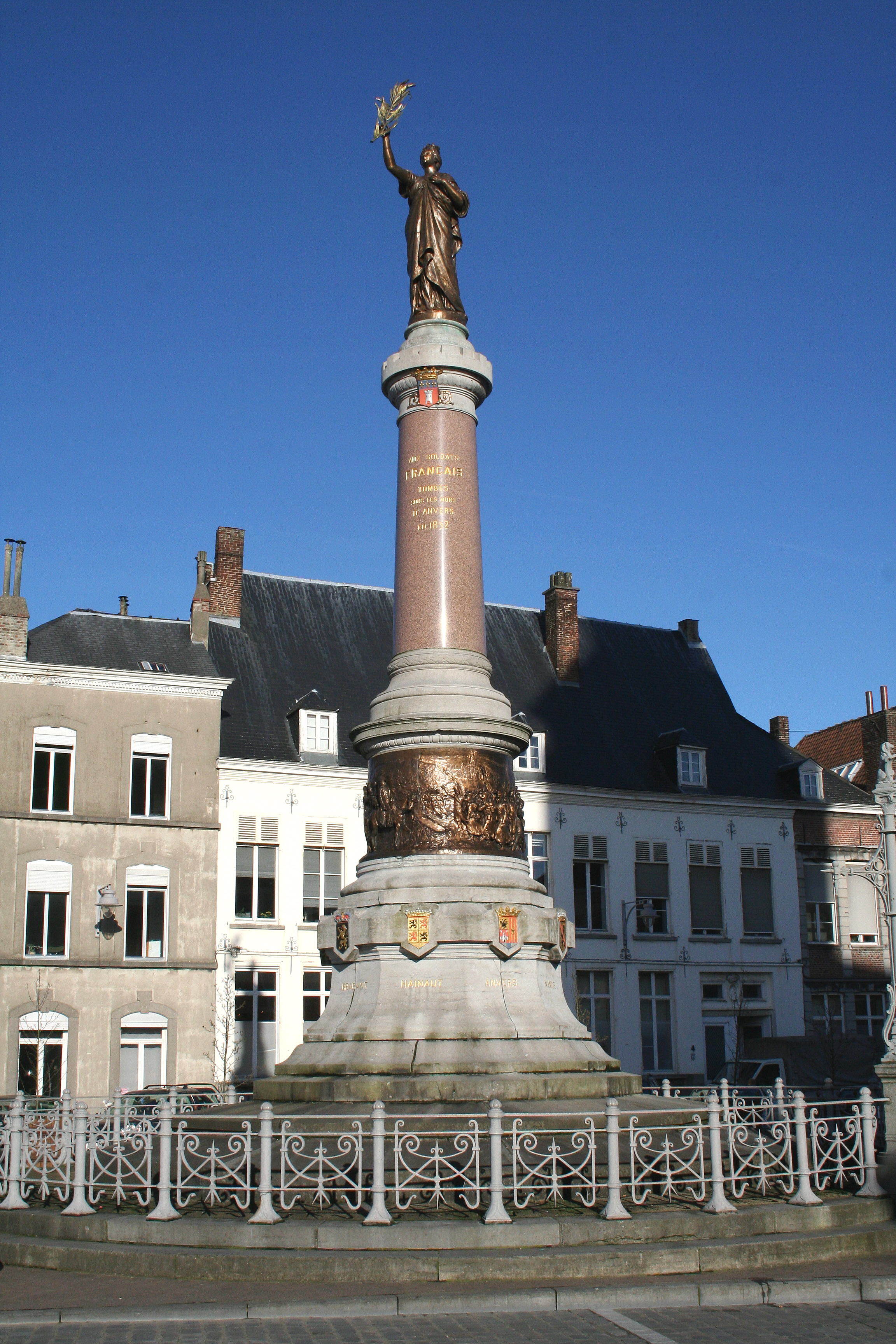 Tournai (Belgium, Place de Lille – Memorial in honor of the french soldiers killed in 1832 during the Antwerp siege.